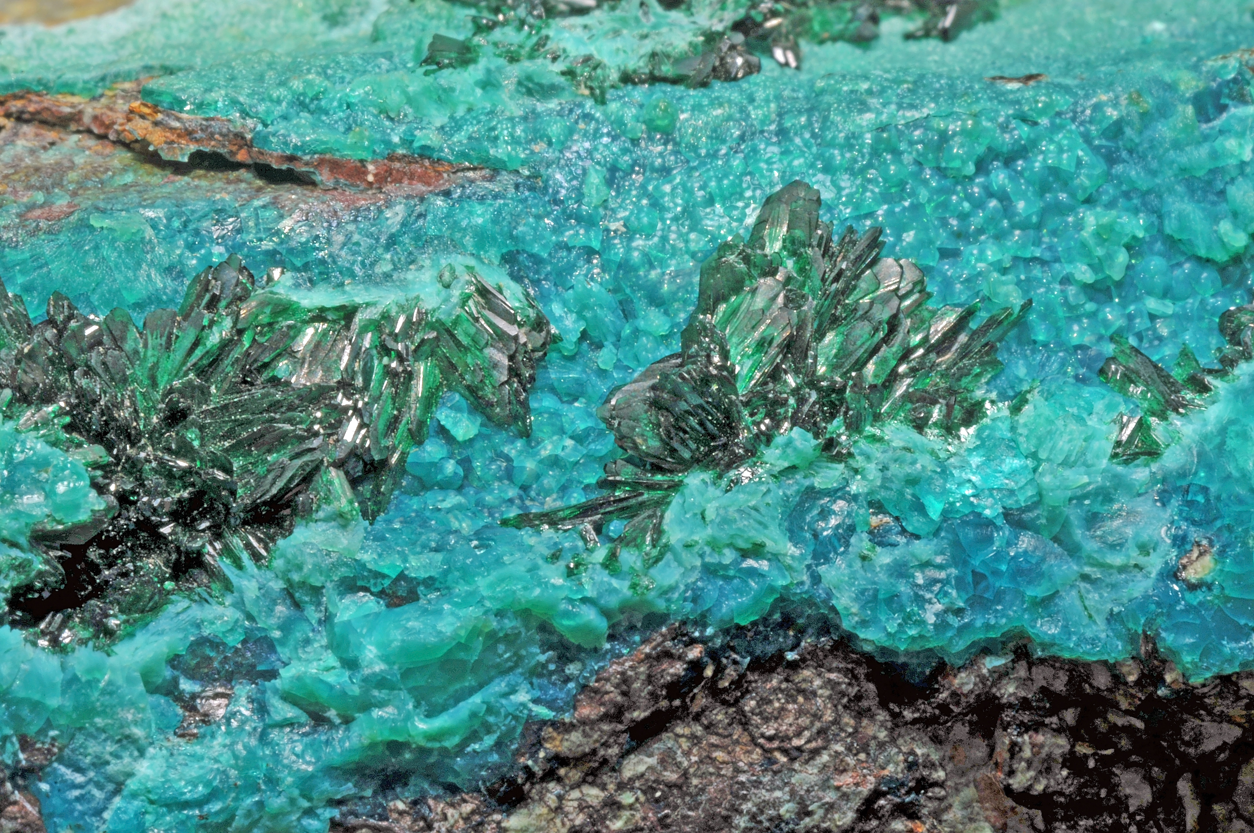 atacamite, chrysocolla : La Farola Mine, Cerro Pintado, Las Pintadas District, Tierra Amarilla, Copiapó Province, Atacama Region, Chile